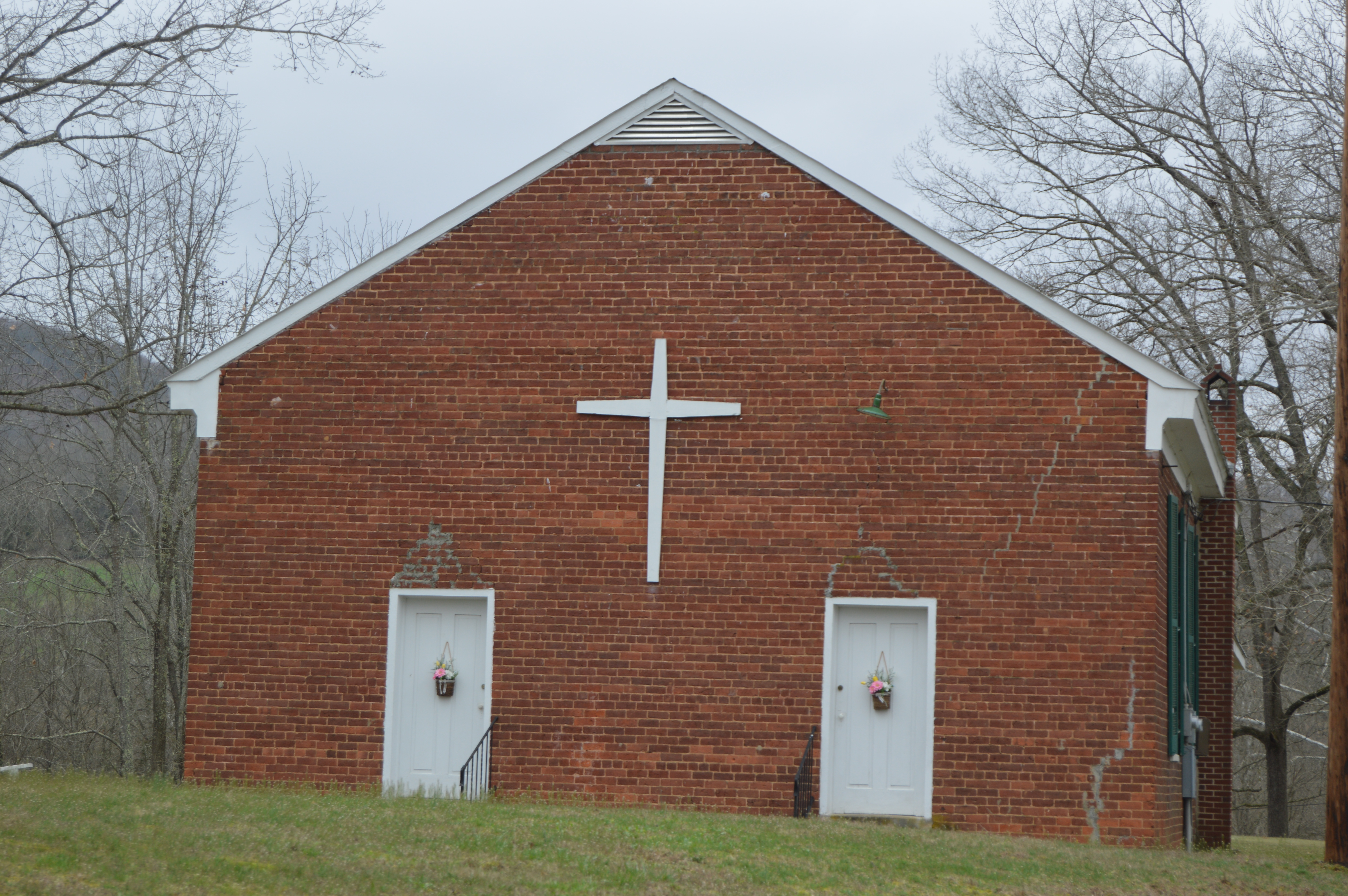 Front of Broad Run Baptist Church, located along West Virginia Route 3 at Wolfcreek in Monroe County, West Virginia, United States.